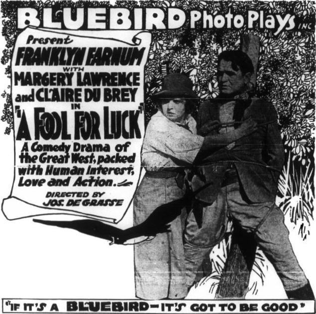 Advertisement for the American comedy drama western film Anything Once (1917) under its original title A Fool for Luck, with Marjory Lawrence (as Magory Lawrence) and Franklyn Farnum, on page 34 of the September 14, 1917 Variety. The title was changed after Essanay Film released its Taylor Holmes film Fools for Luck (1917) and complained that the Universal Pictures film title was too similar. See notice regarding the retitling of the Universal film on page 31 of the September 21, 1917 Variety.